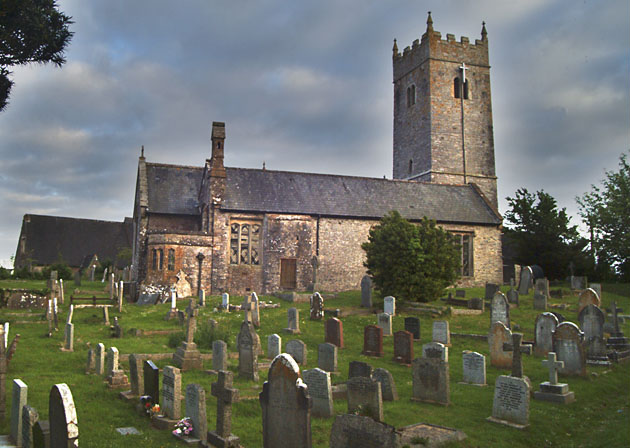 Bickington Village Church. This image shows the cramped graveyard and rear side of the St Mary the Virgin church. It has no permanent vicar and is attached to the main parish church in the nearby town of Ashburton.